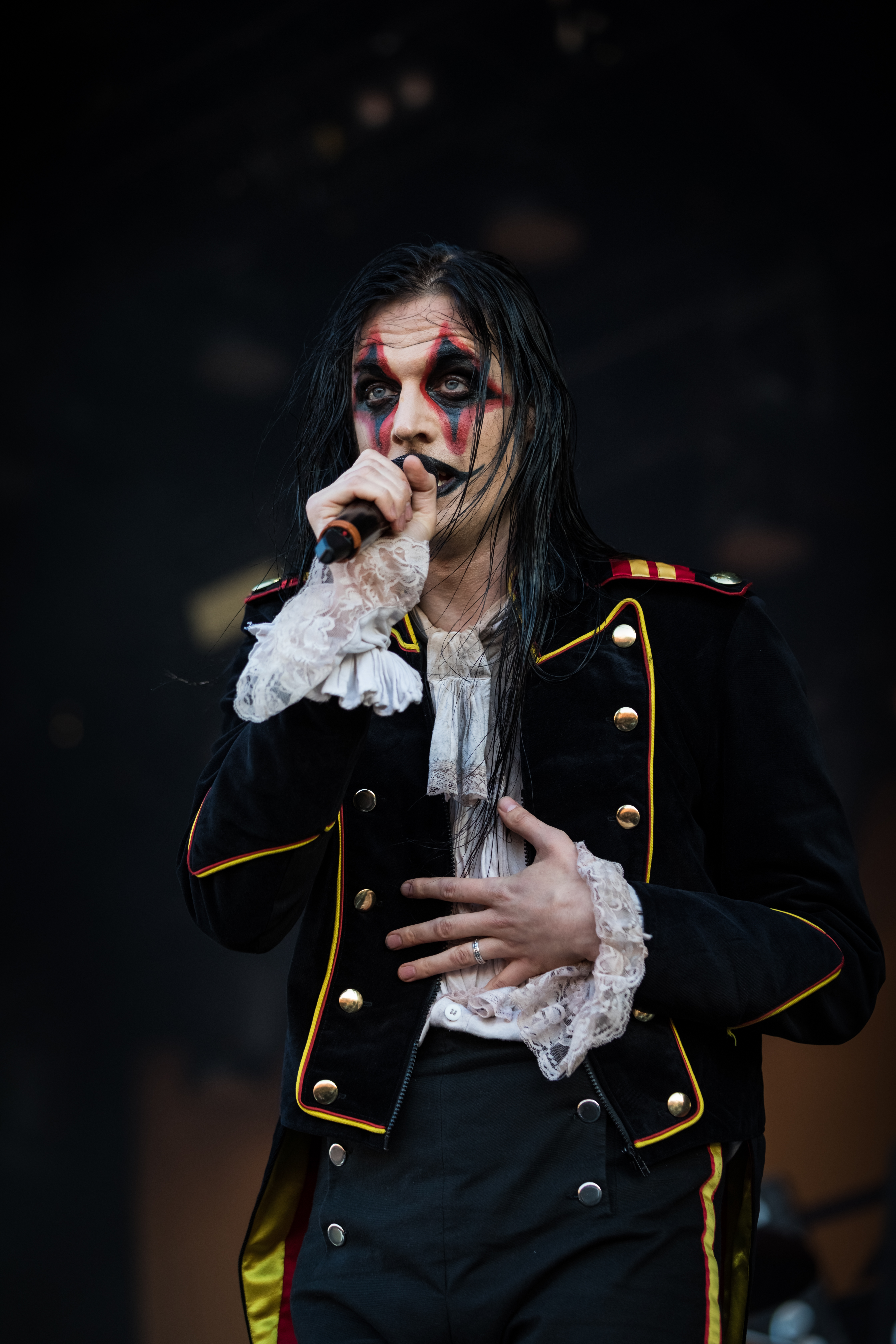 Avatar - Rock am Ring 2018